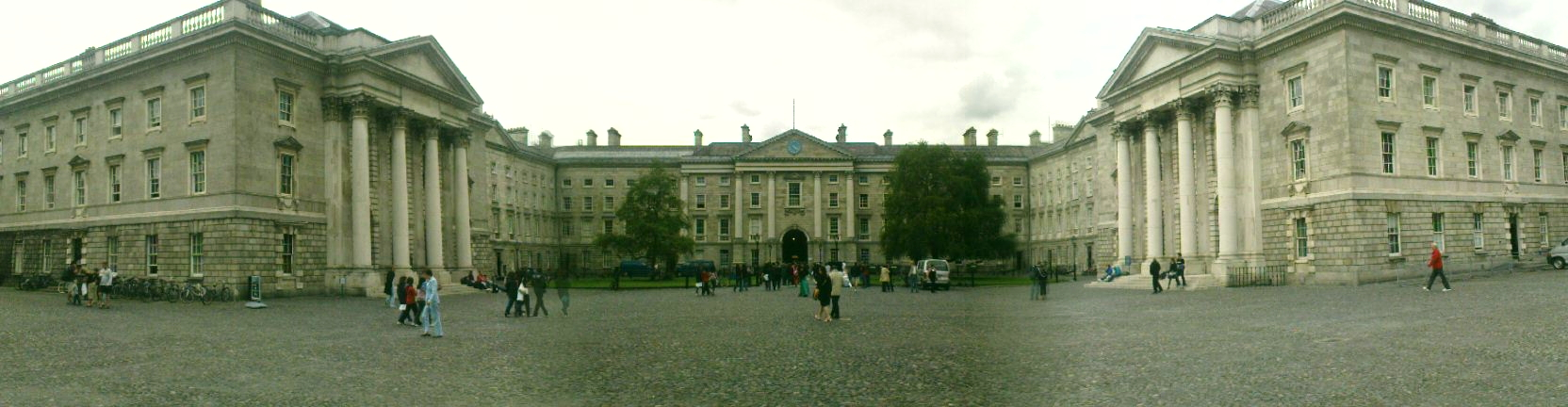 Front Arch Panorama, Trinity College, Dublin, Ireland